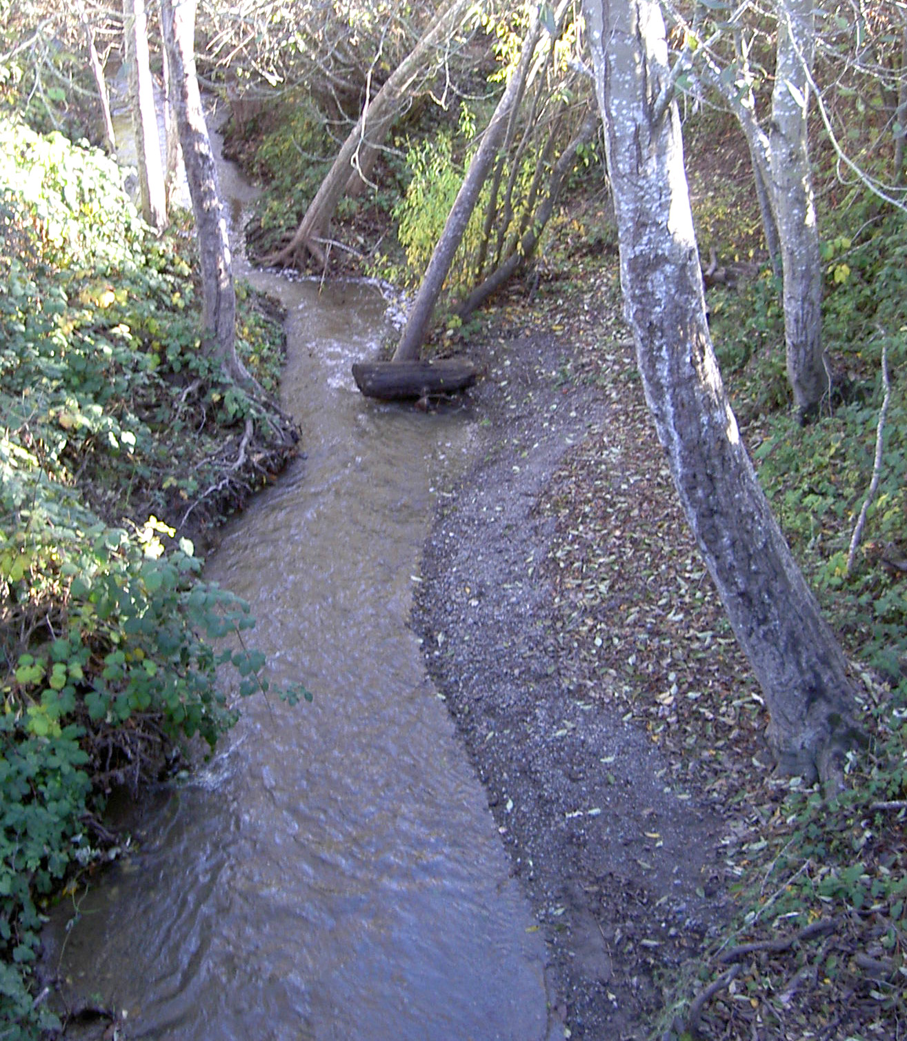 Photograph of Salmon Creek in Sonoma County, California, taken from the Bohemian Highway bridge in Freestone on December 7, 2007 by Stephen Gold. Cropped and enhanced using Adobe Photoshop Elements.